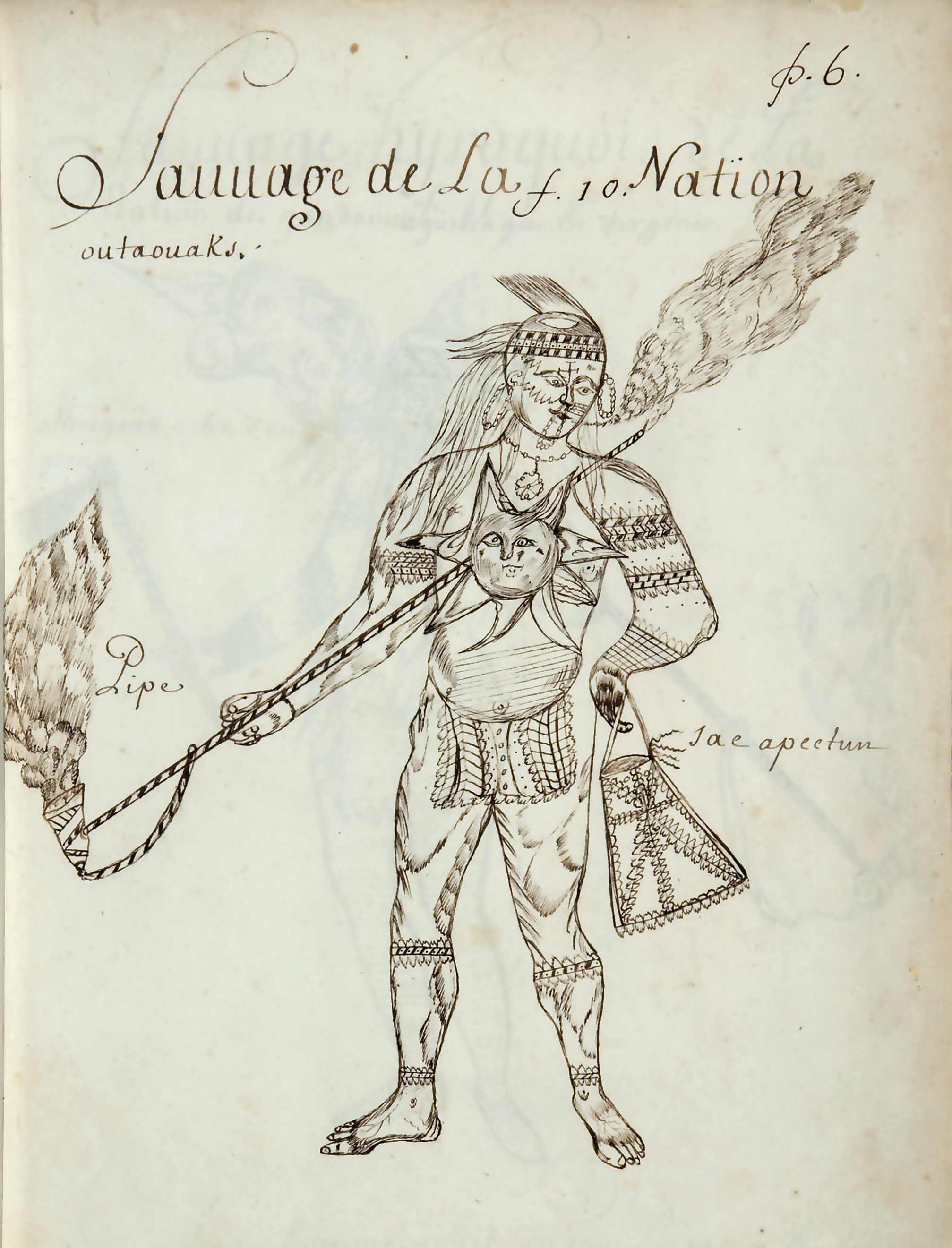 Man of the Outaouak Nation. / Pipe / Tobacco bag